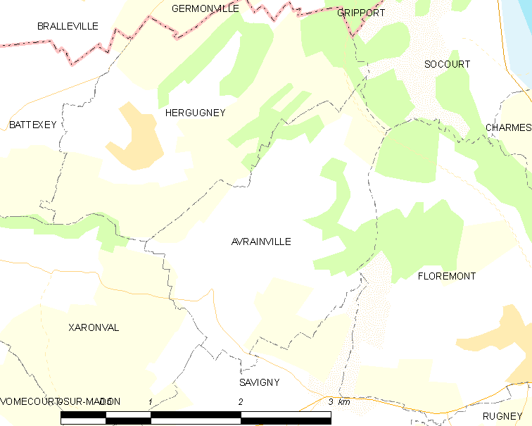 Map of French municipality Avrainville